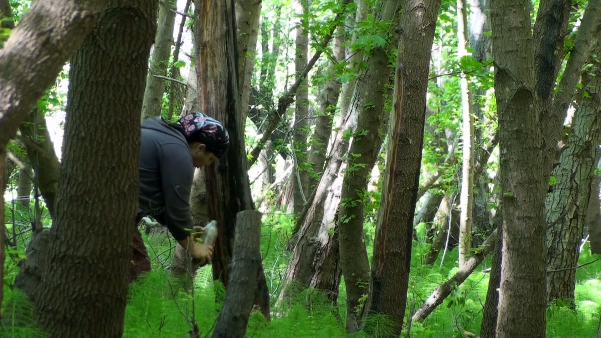 In the Liquidambar forests of Kavakarasi the sharp edge of a plastic bottle is used to scrape the sap from the trunk of the Liquidambar orientalis.